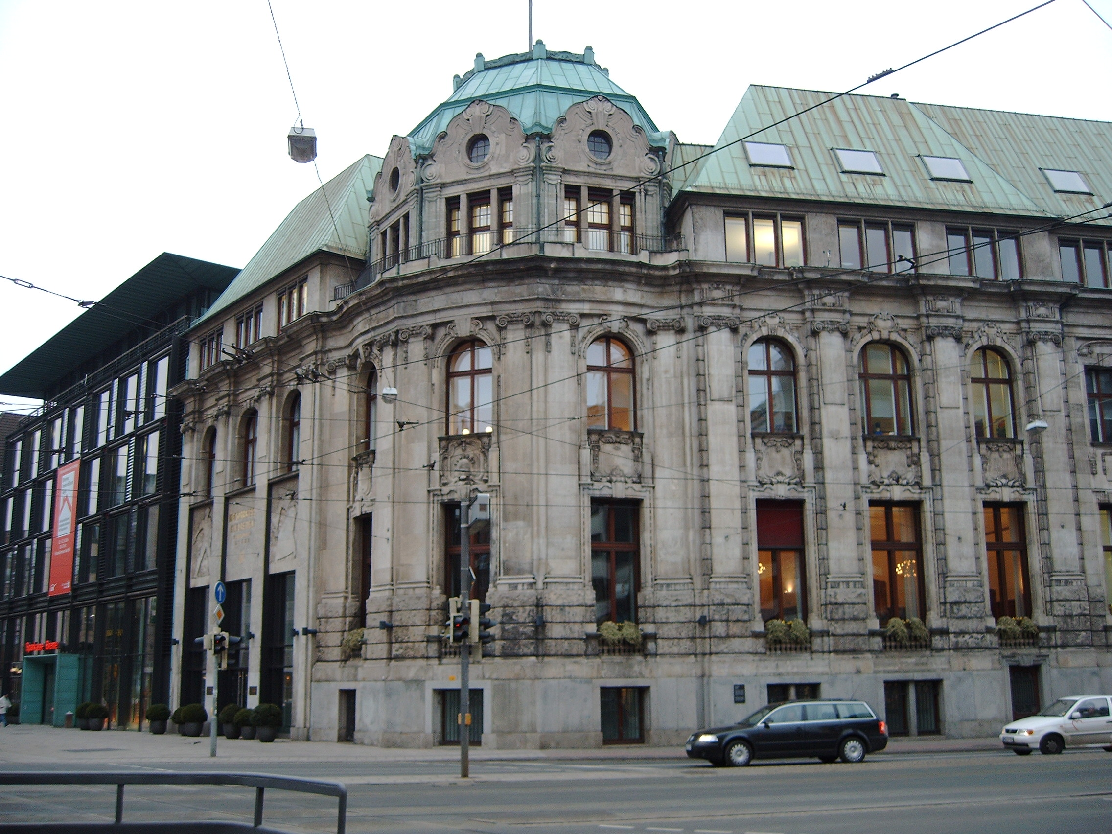 Am Brill